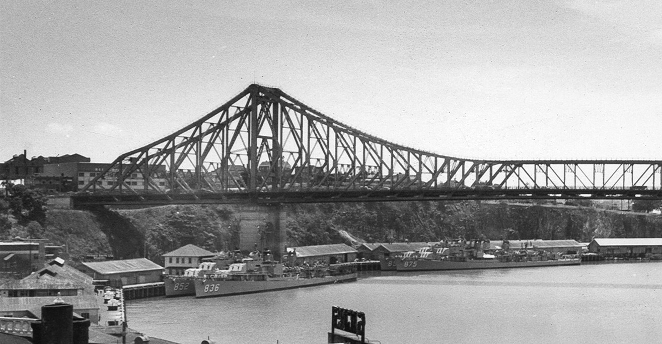 United States Navy ships under the Story Bridge, Brisbane, January 1958. USS George K. MacKenzie (DD-836), USS Leonard F. Mason (DD-852), USS Henry W. Tucker (DD-875) and USS Rupertus (DD-851).